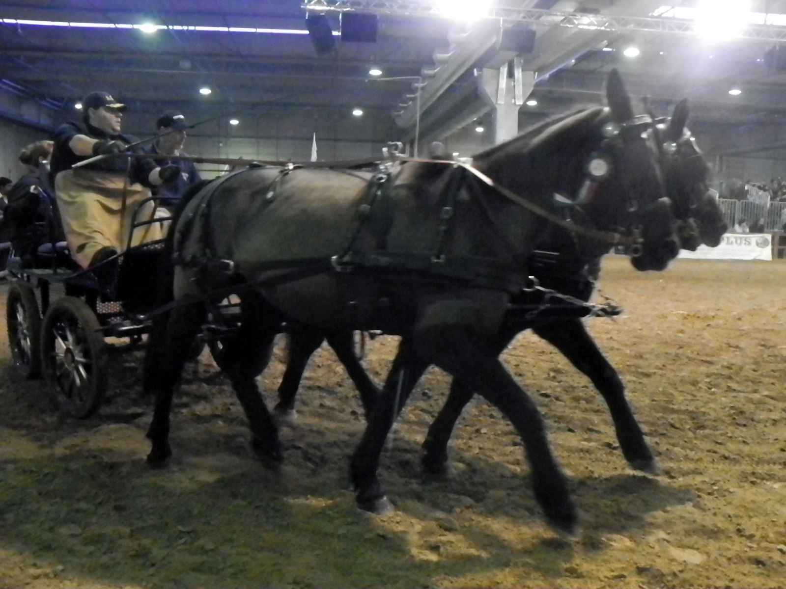 Esperia Pony (Pony dell'Esperia), hitched pair, photographed at Fieracavalli, Verona, Italy, on 9 November 2014.